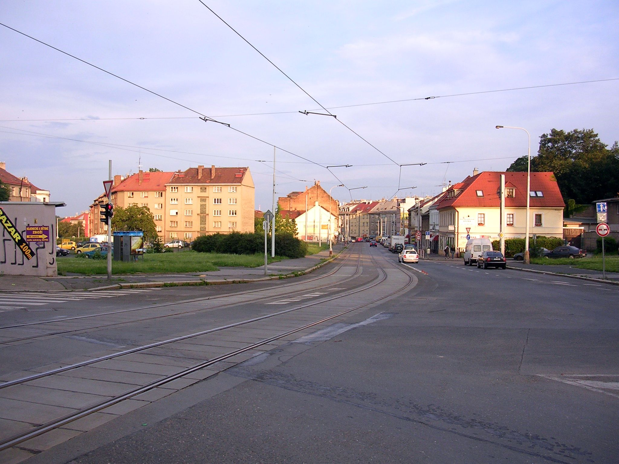 Libeň, Prague, the Czech Republic. Na stráži Square.